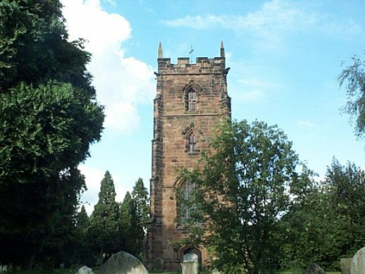 Parish church of SS Nicholas and Peter Ad Vincula, Curdworth, Warwickshire, seen from the west